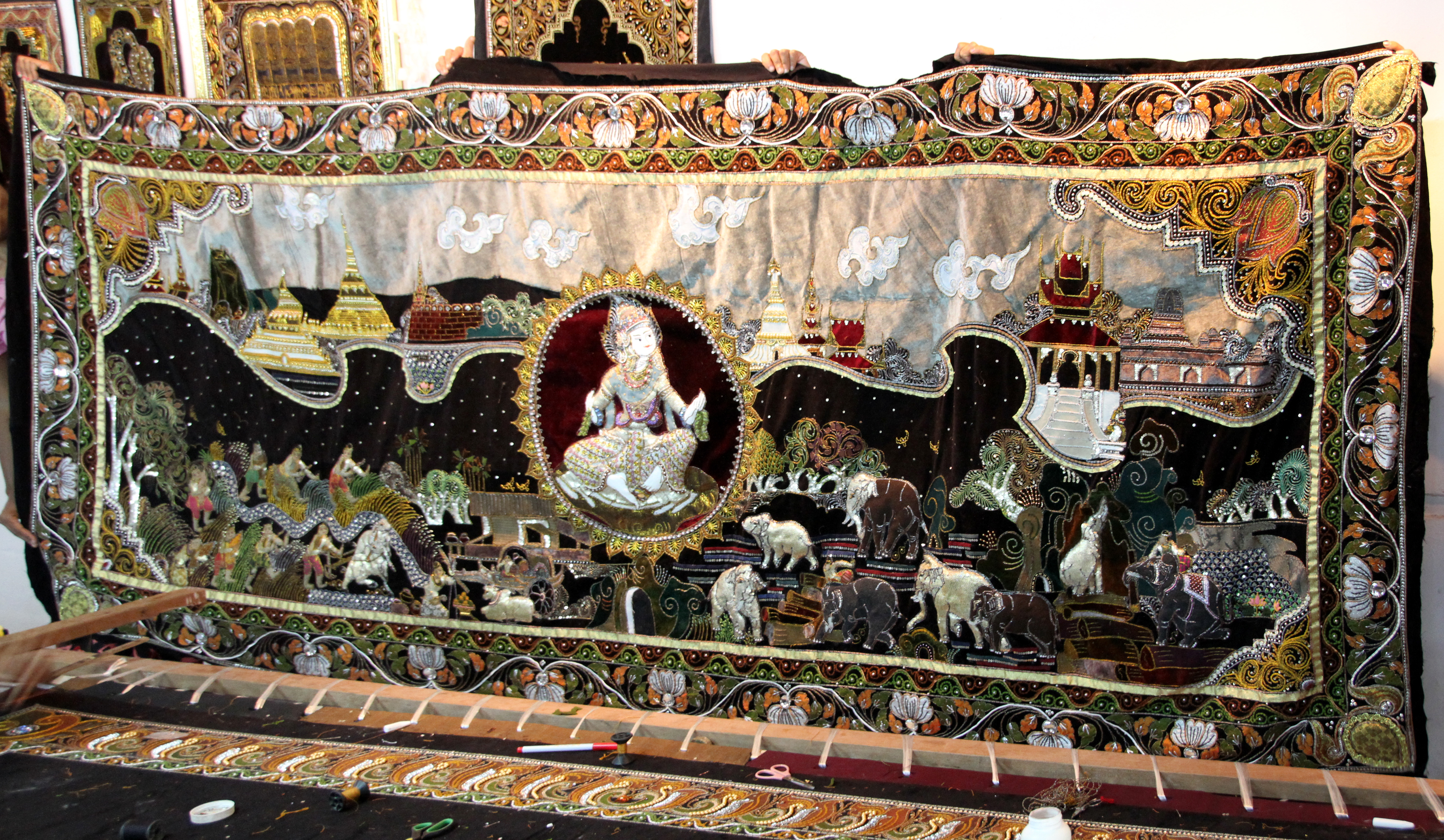 Embroidering at Mandalay in Myanmar.